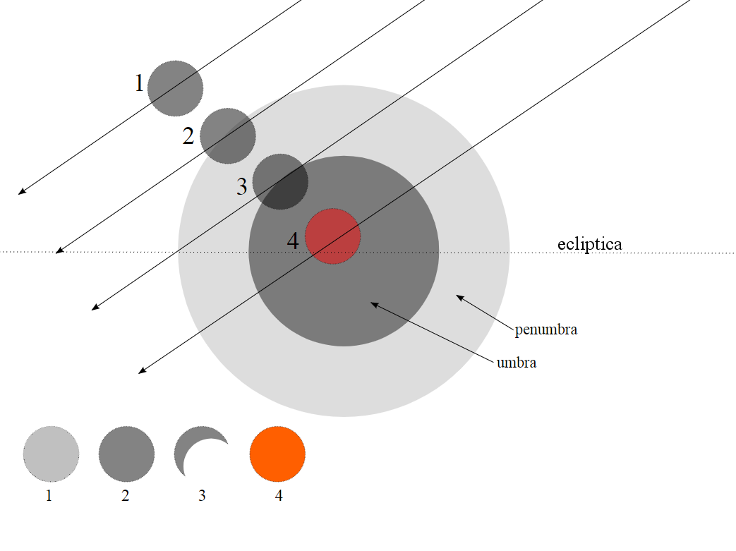 Variants of lunar eclipses, Based on File:Passagem nodo descendente.svg, original upload by User:FSogumo